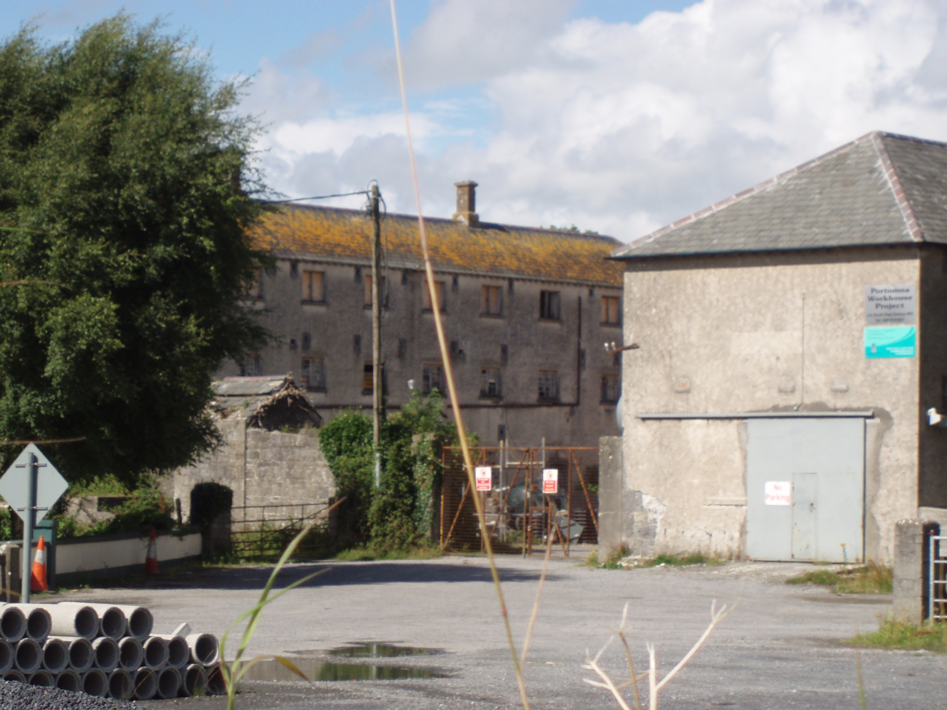 A picture of the Portumna Workhouse